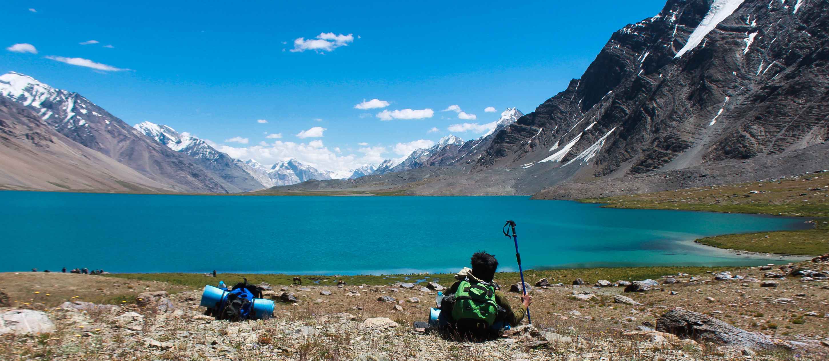 “No matter where you go, there you are.”